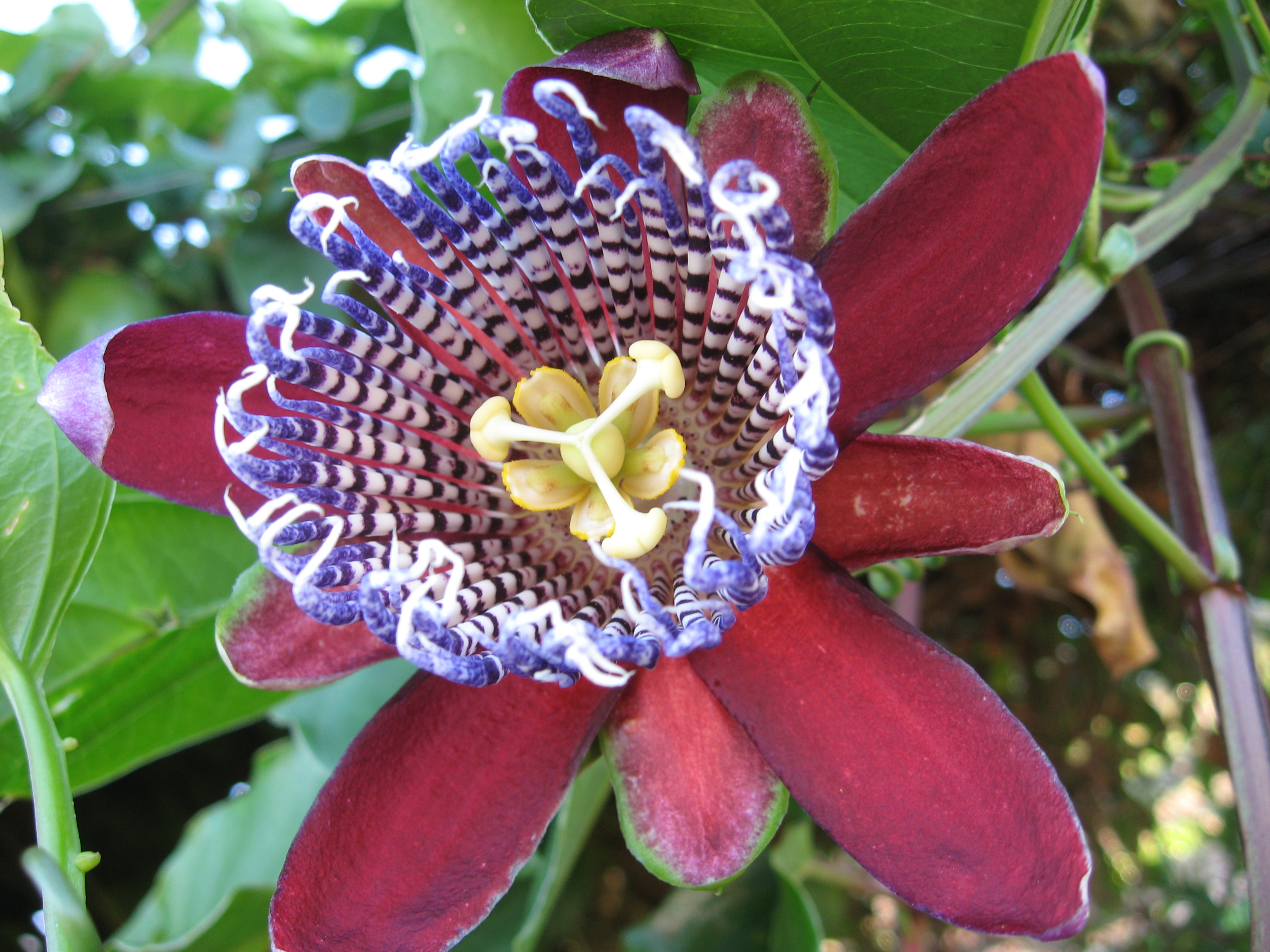 Passiflora alata flower, photographed in Atibaia, southeastern Brazil